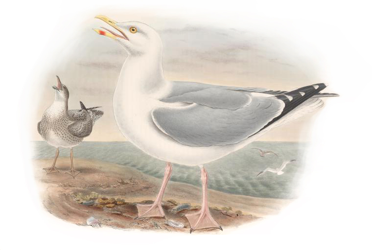 Herring gull (Larus argentatus)